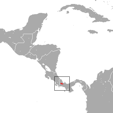 Enders's Small-eared Shrew (Cryptotis endersi) range